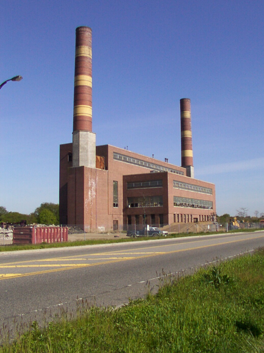 Central Islip State Hospital Powerplant Central Islip State Hospital Power Plant Central Islip State Hospital Powerstation Central Islip State Hospital Power Station Central Islip State Hospital Powerhouse Central Islip State Hospital Power House